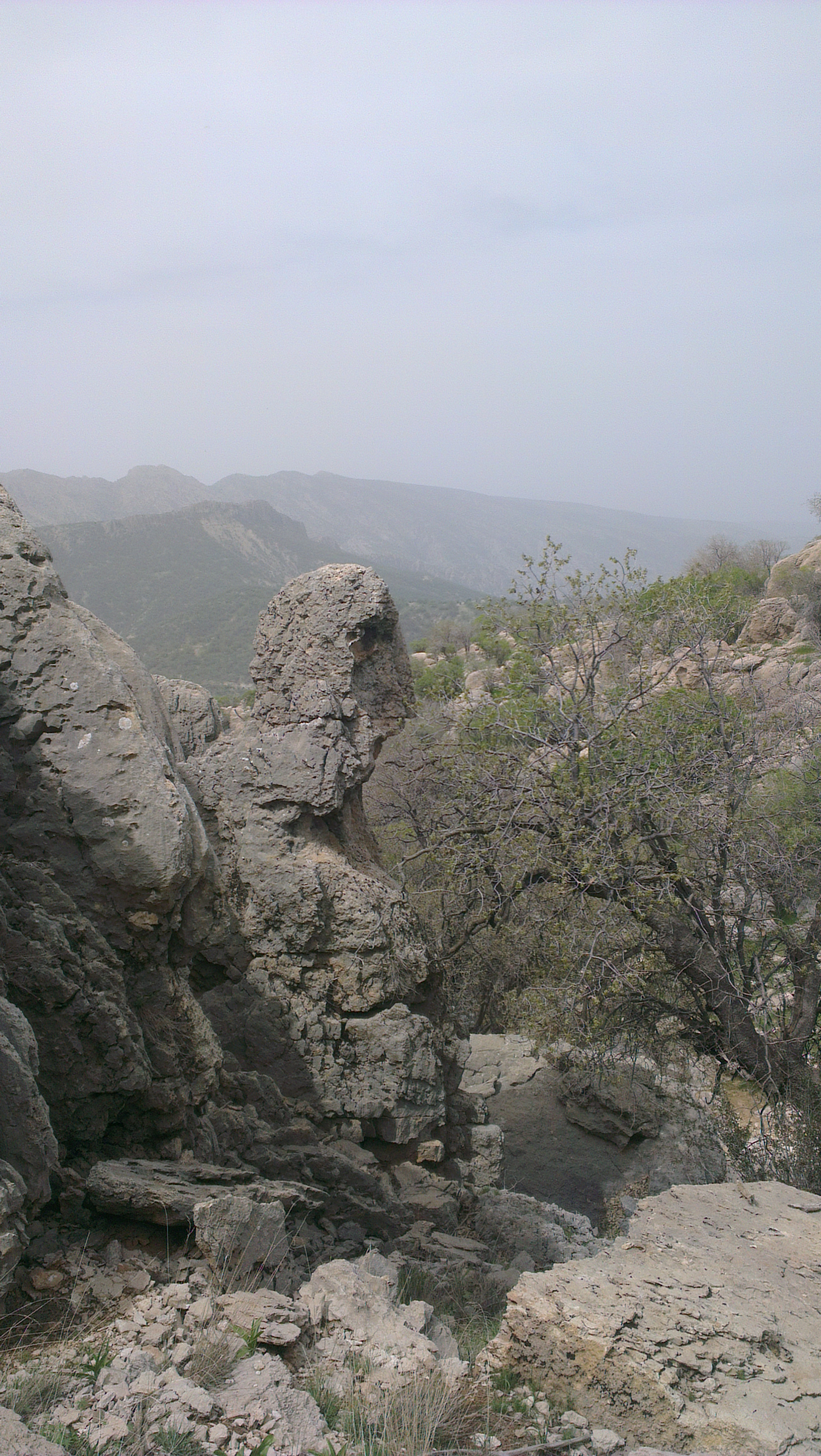 Pareidolia (human face) located chaste khar mountain in choram county.